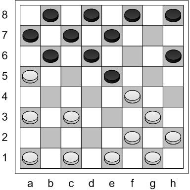 Position in opening Обратная городская партия (Obratnaya gorodskaya partiya) in russian checkers